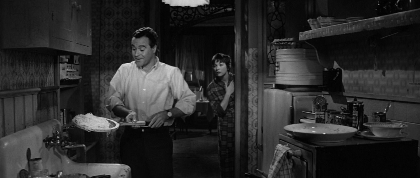 Screenshot of Jack Lemmon as C.C. Baxter using a tennis racket to strain spaghetti in the trailer for the film The Apartment (1960)